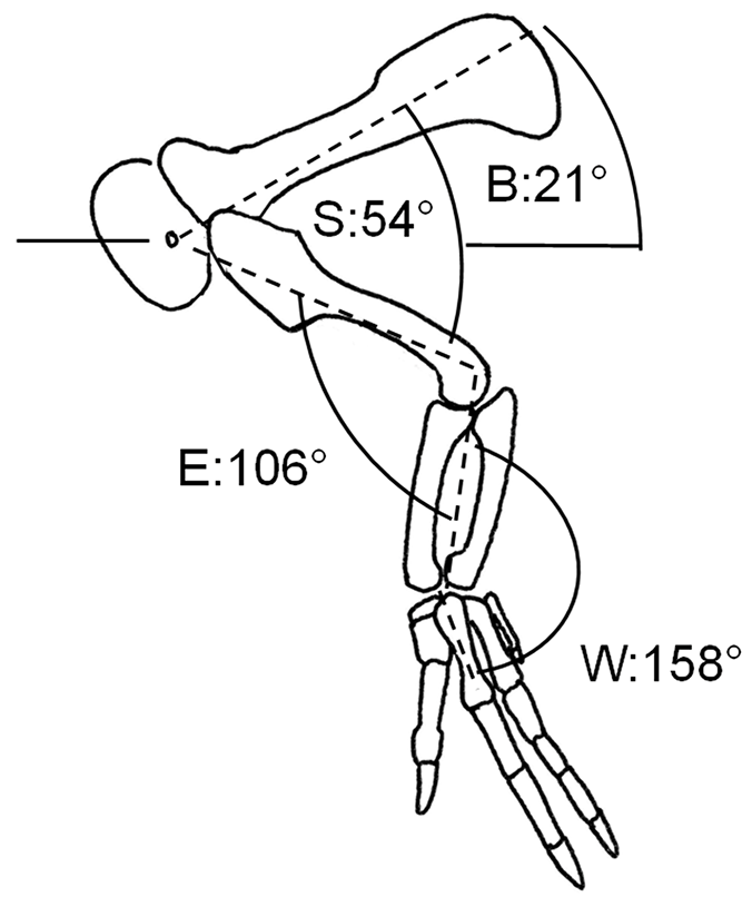 Pectoral girdles and forelimbs of Dilophosaurus wetherilli (UCMP 37302) in left lateral view, depicting resting scapular and forelimb orientation as recommended according to the results of this study. A solid horizontal line is parallel to long axis of sacrum. Angle labels: B = scapular orientation relative to long axis of sacrum. E = elbow angle. S = shoulder angle. W = wrist angle. See Materials and Methods section for descriptions of angles.